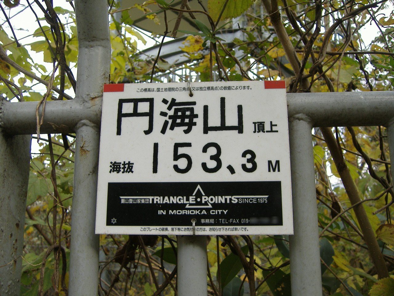 Enkaizan_Mountain-top_Plate (Yokohama, Japan)